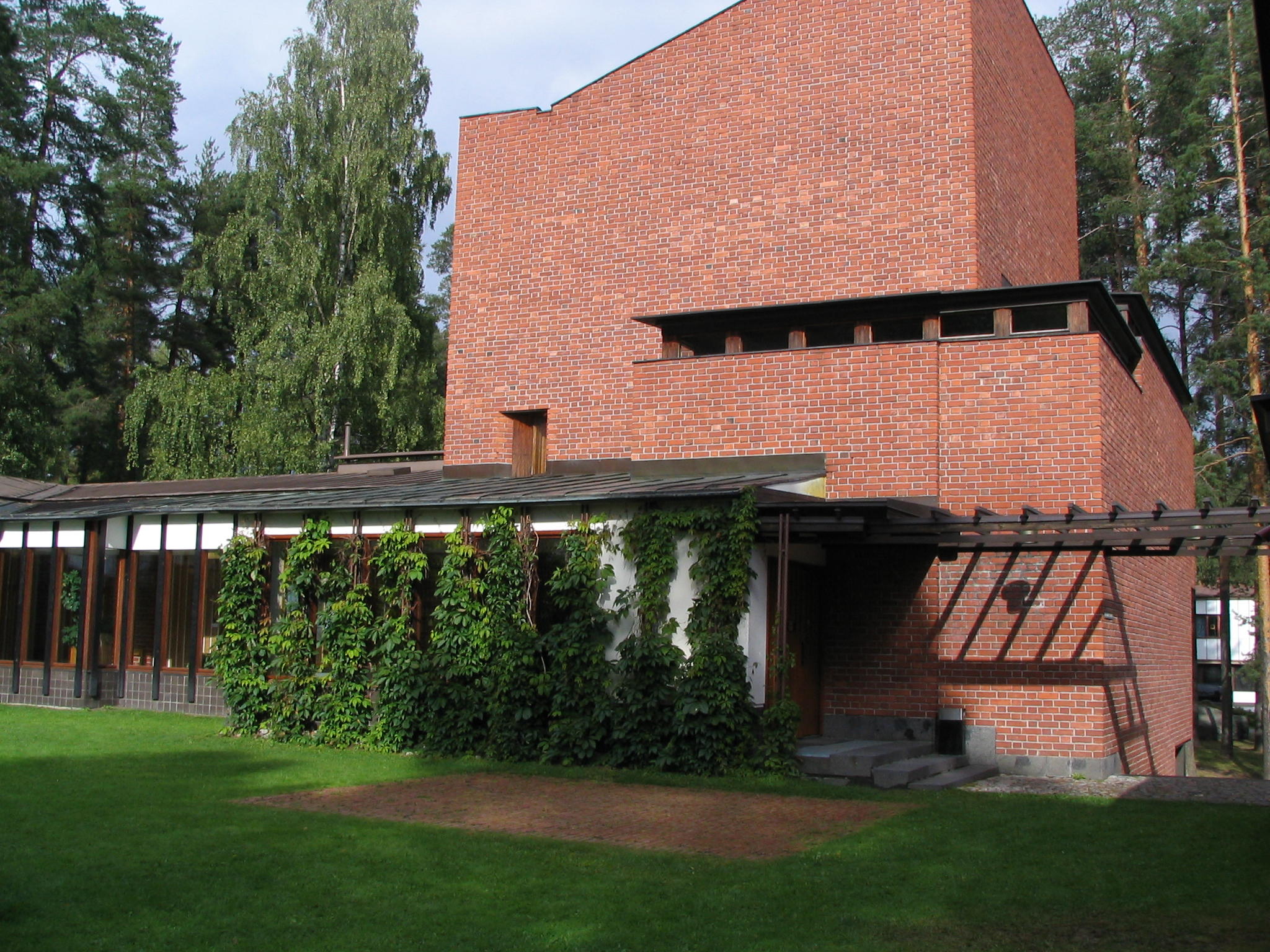 Saynatsalo town hall and library, Jyväskylä, Finland